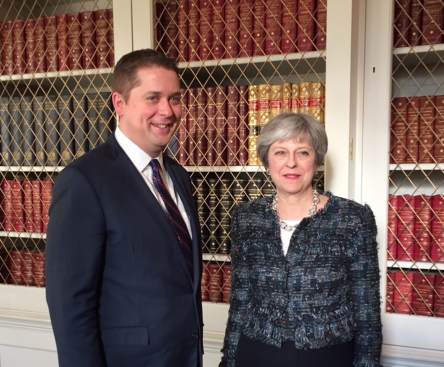 Today I had the pleasure of meeting with Prime Minister Theresa May. It was great to see her again and to talk about issues of mutual interest, such as promoting free trade and creating opportunity for all people in Canada and the U.K.